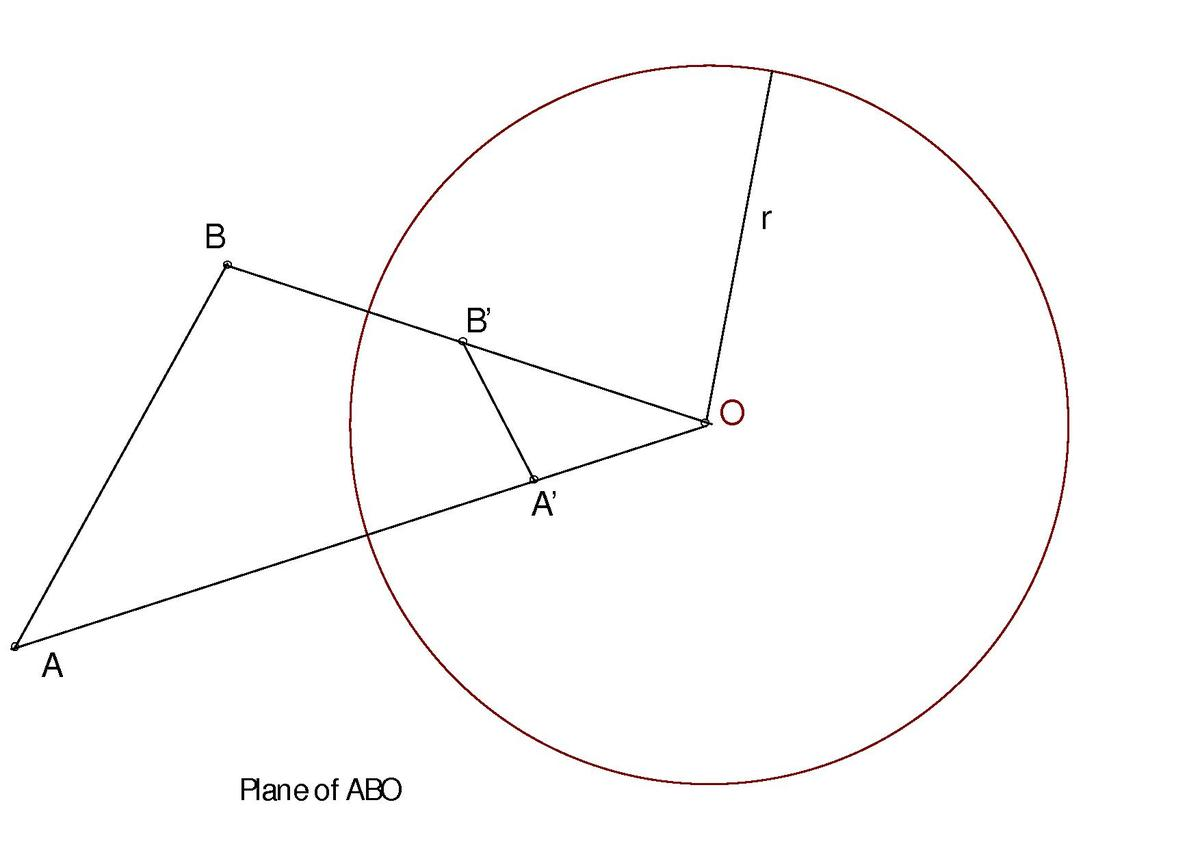 line drawing